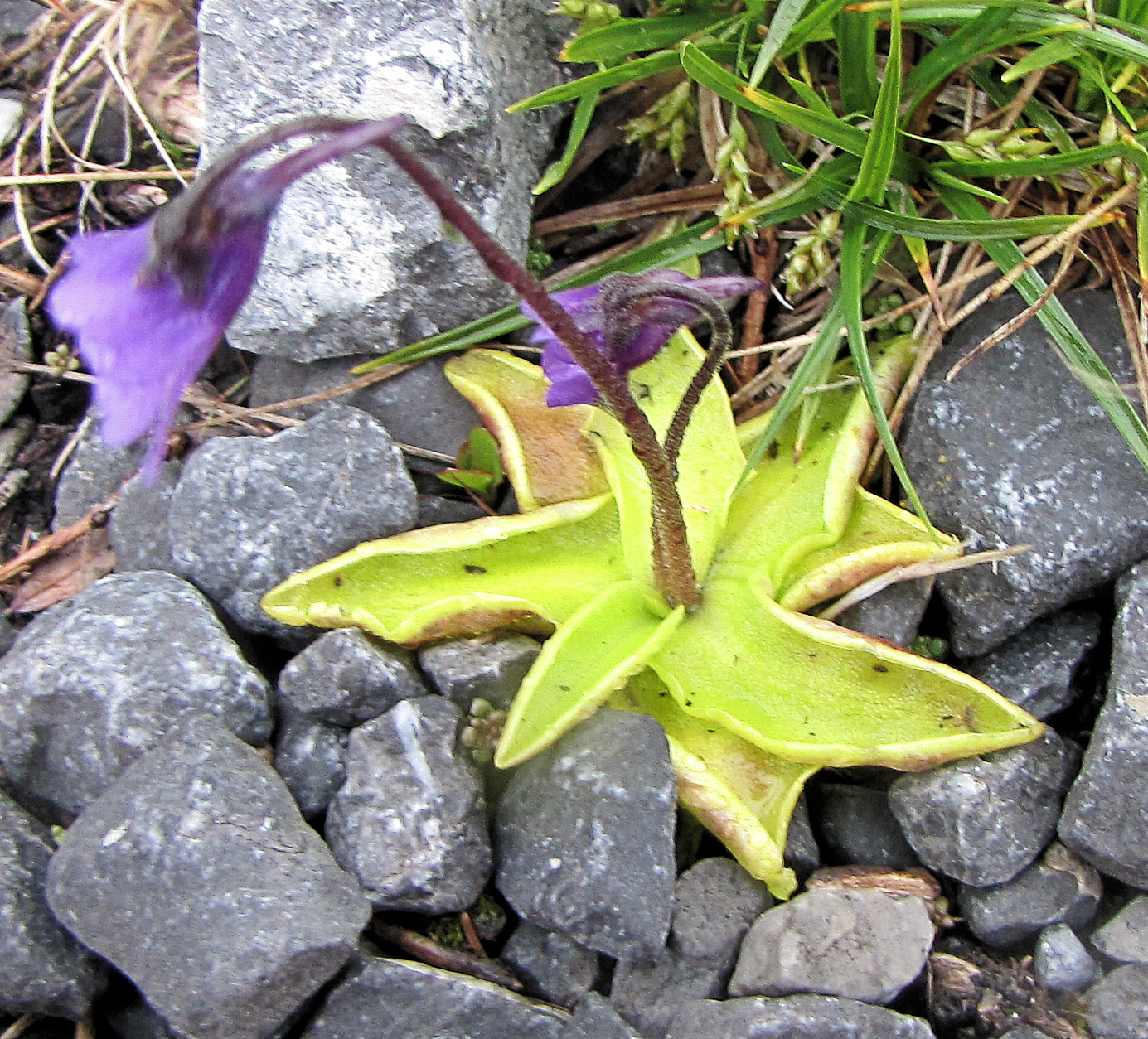 Common butterwort (Pinguicula vulgaris), Burnt Cape, Newfoundland and Labrador